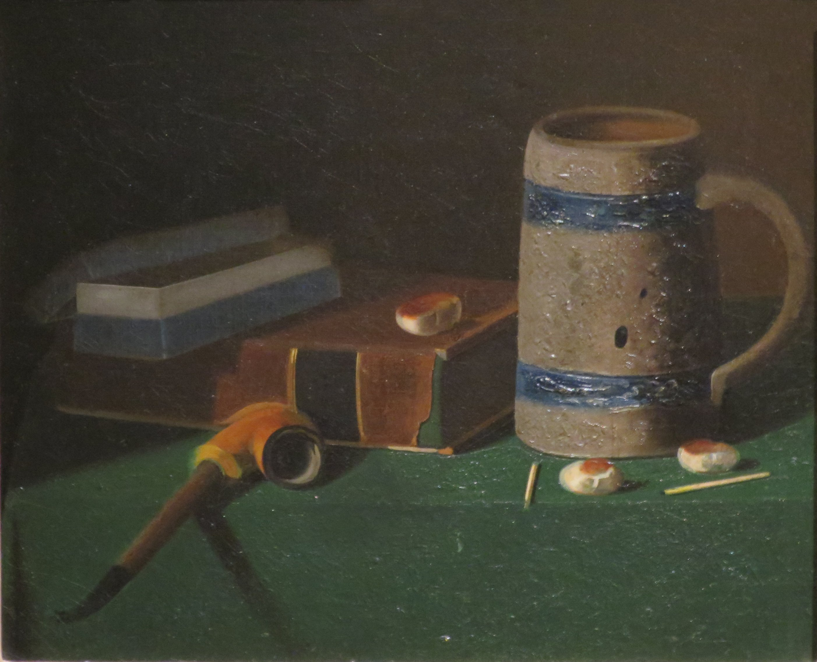 Mug, Book, Smoking Materials and Crackers